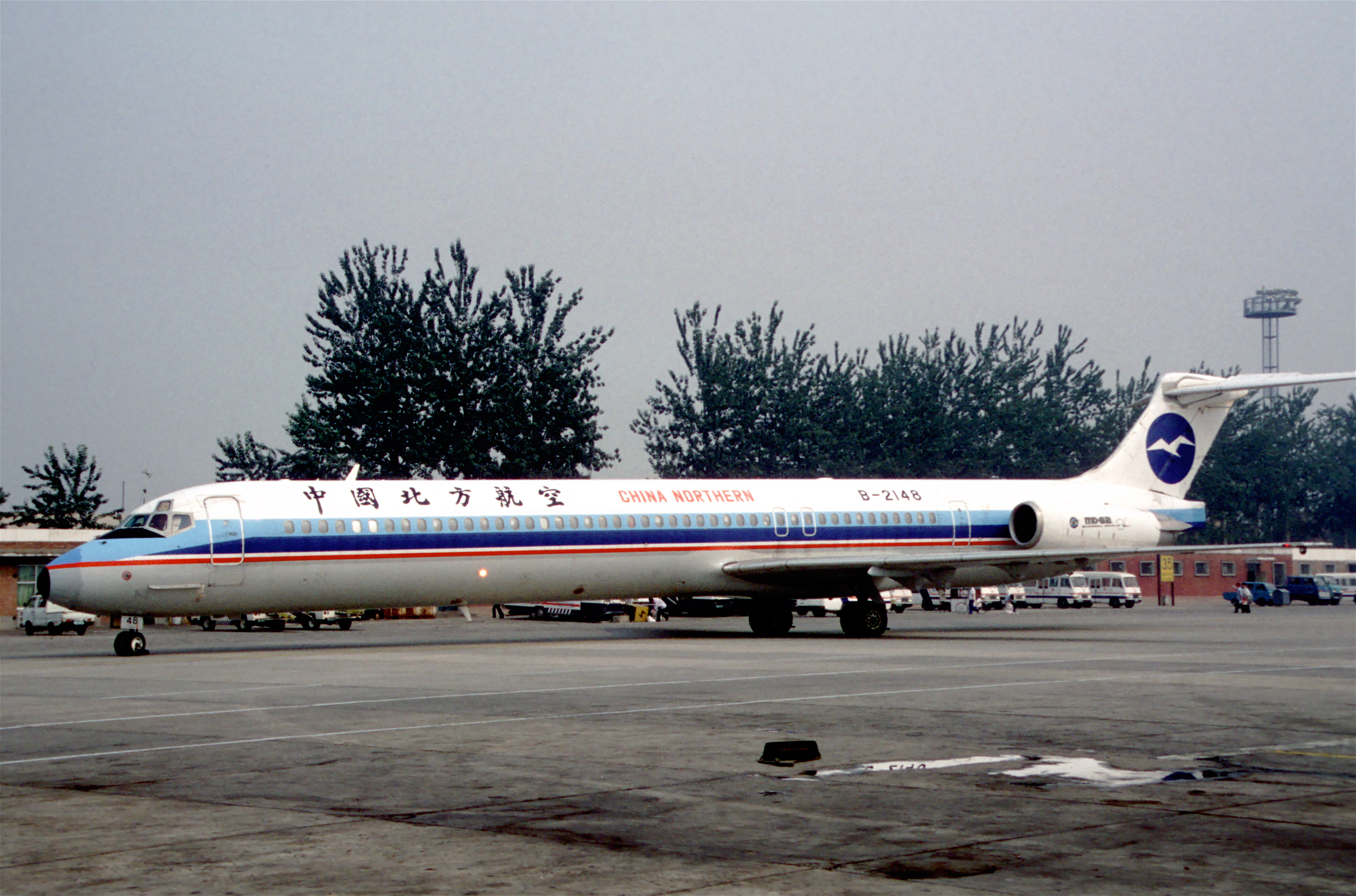 China Northern Airlines MD-82; B-2148, October 1998/ BSK